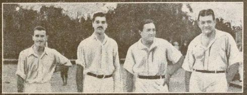 The participants of the Hungarian tennis championship 1914 (Lajos Göncz, Jenő Zsigmondy, Béla Kehrling (champion), Aurél Kelemen)